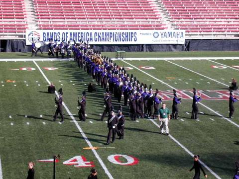 BOA Las Vegas Regionals 2004-2005 for Rancho Cucamonga High School Marching Cougars